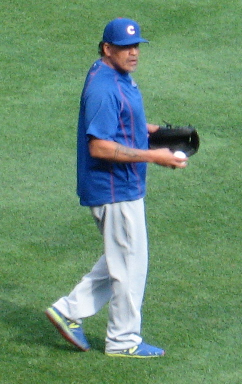 Joel Peralta of the Chicago Cubs, June 30, 2016.